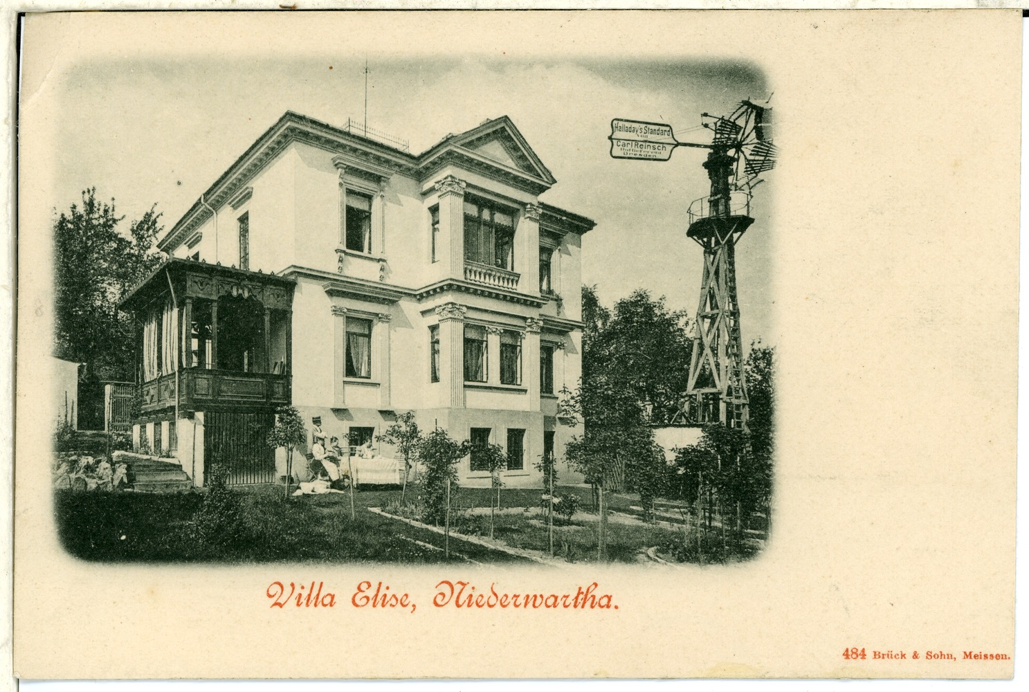 This postcard is from publisher Brück & Sohn in Meißen ( This postcard has a unique number 00484 and is available in a higher resolution at the publisher. This images was uploaded in a cooperation project between Wikipedians and the publisher.